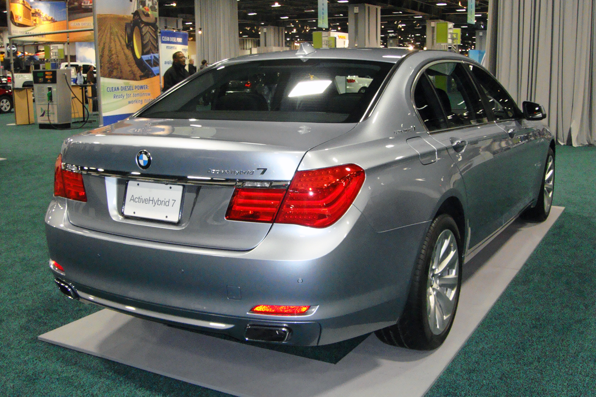 BMW ActiveHybrid 7 at the 2010 Washington Auto Show (D.C.)